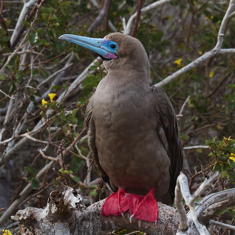 Red-footed Booby photo taken on Genovesa Island, Galapagos, Ecuador.